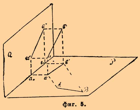 Illustration from Brockhaus and Efron Encyclopedic Dictionary (1890—1907)